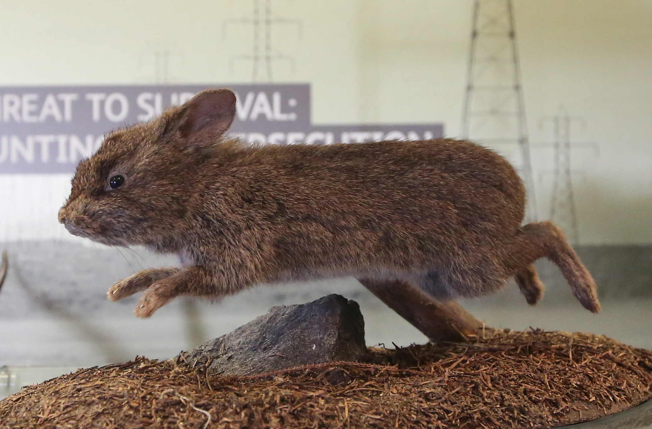 Photograph of a taxidermied romerolagus diazi (Volcano rabbit)